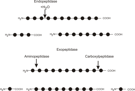 diagram of actions of peptidase